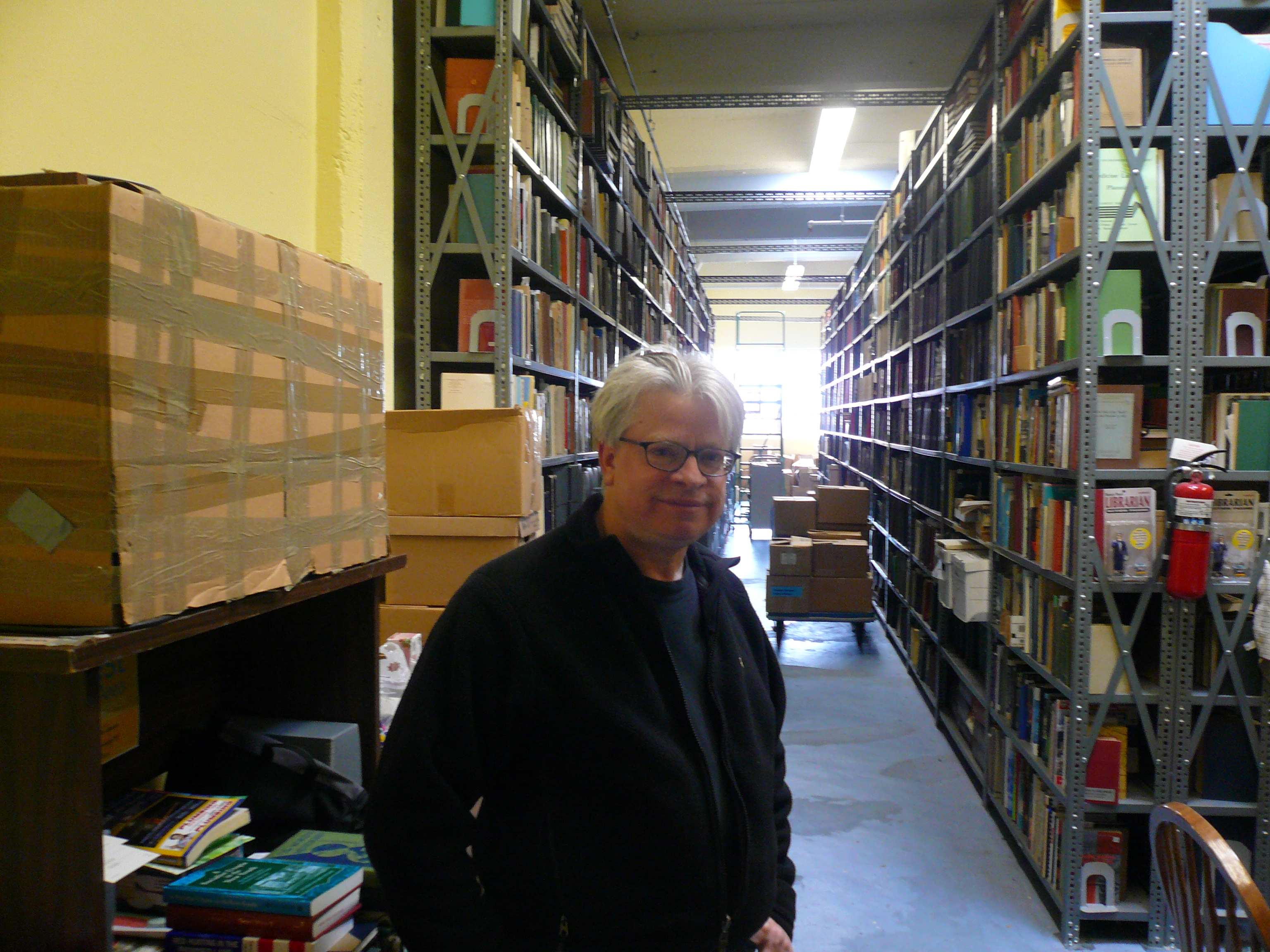 Rick Prelinger and the Prelinger Library